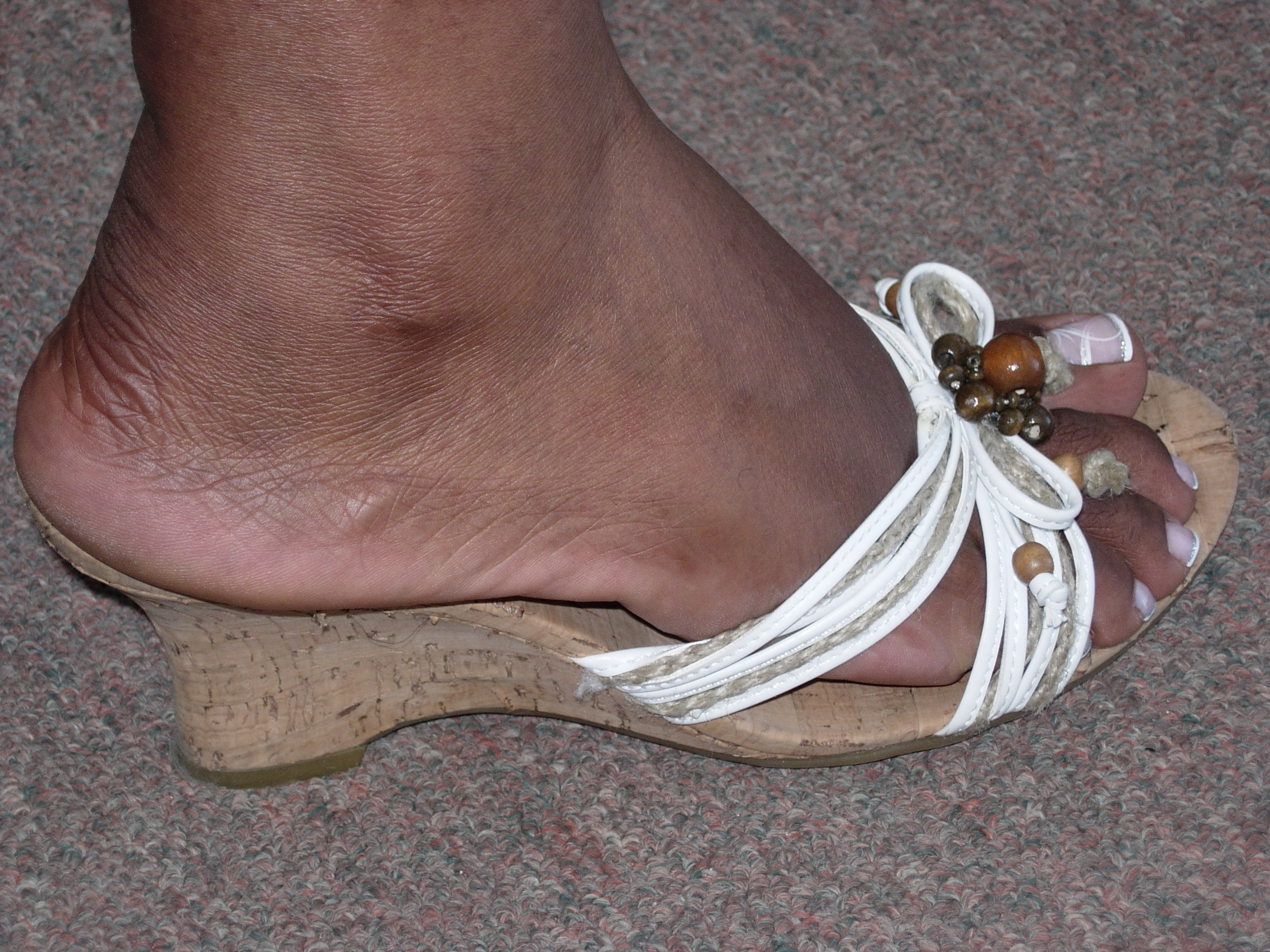 Femal foot in shoe.